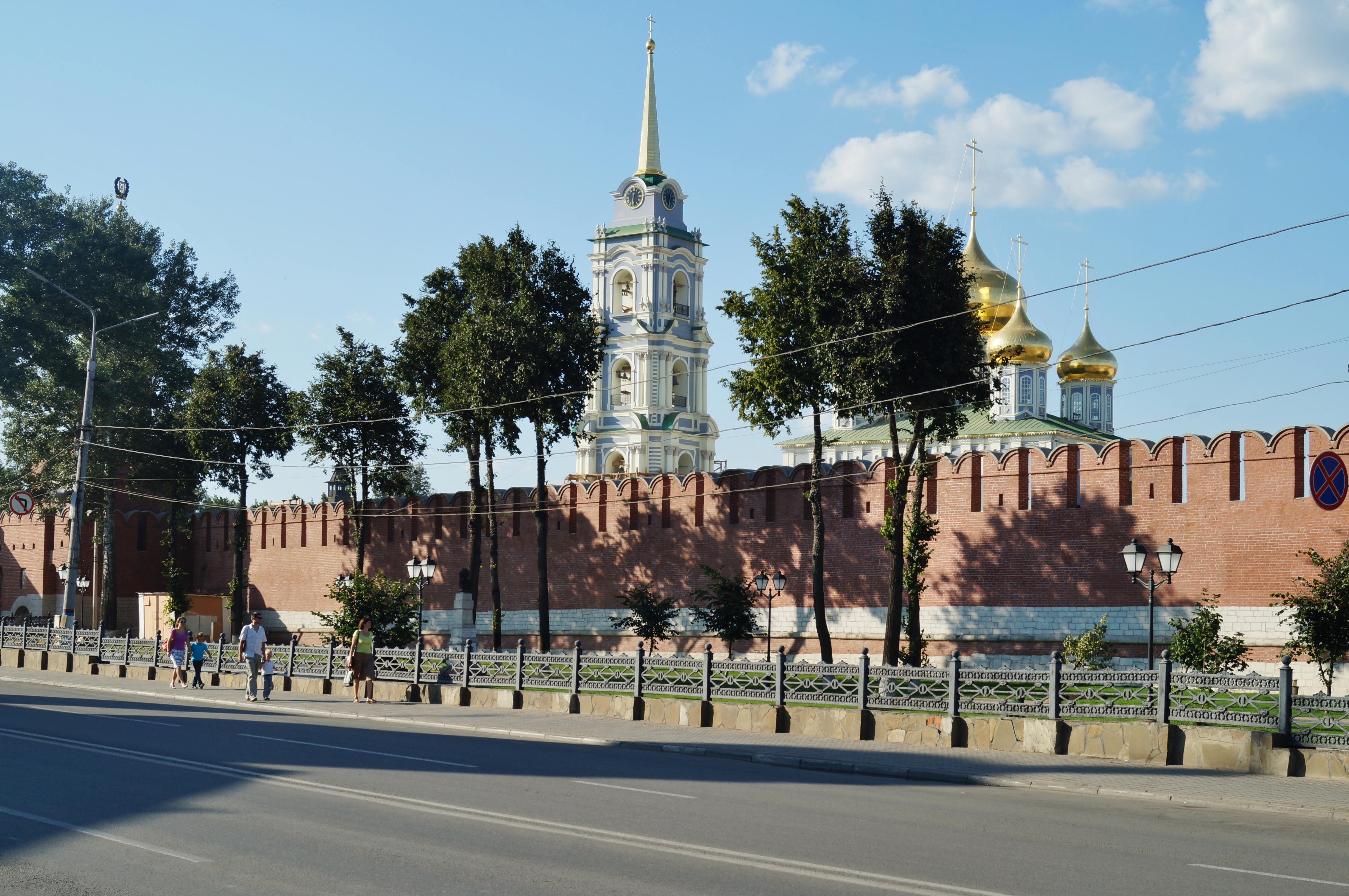 Tula Kremlin